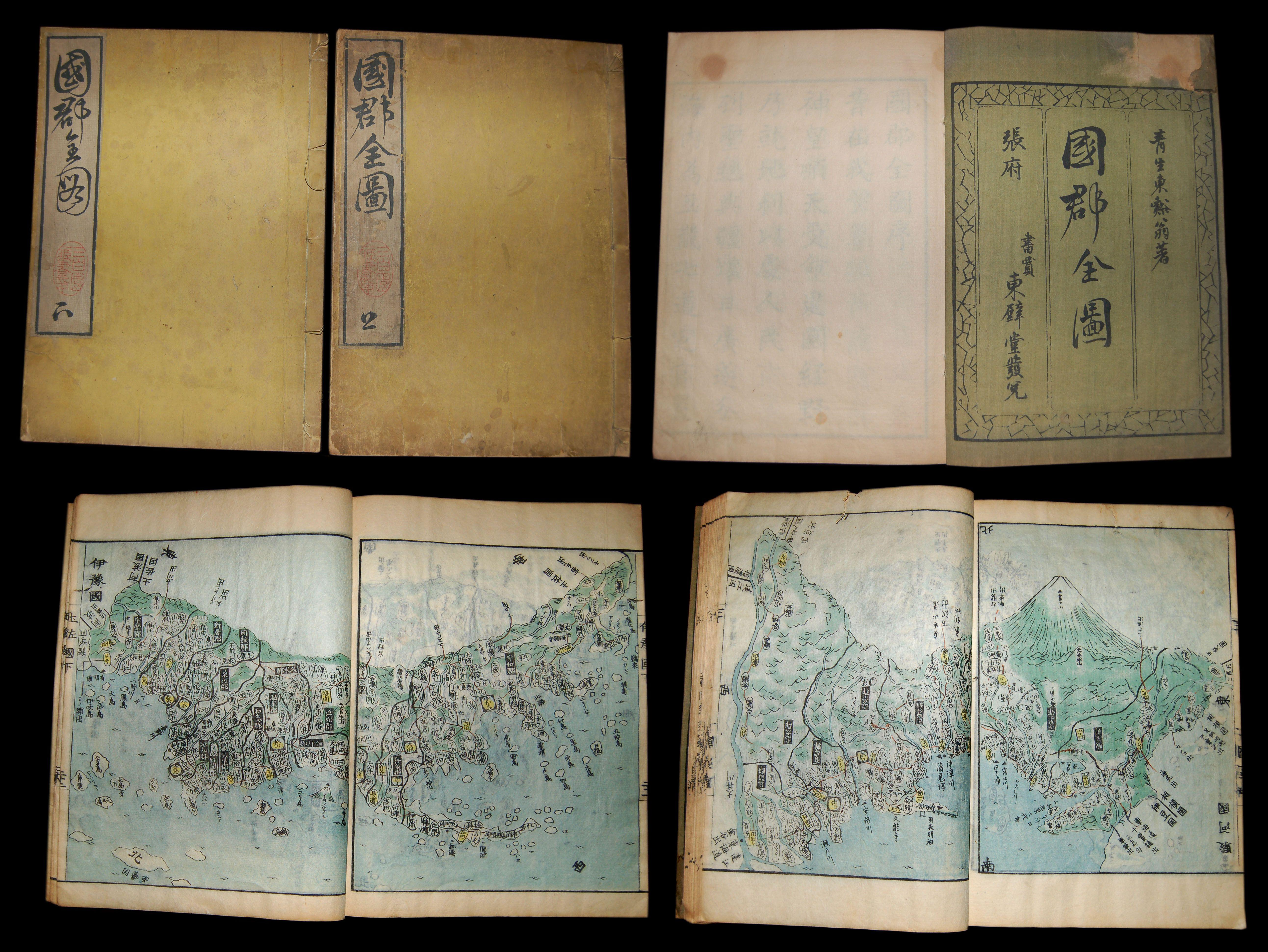 Entitled Kokugun Zenzu and printed c. 1839 (Tenpo 10), this is an early Japanese atlas of exceptional rarity, beauty and importance. Compiled by Motonobu Aoo and Toshiro Eirakayu based upon the works of Japan's 18th century master cartographer Ino Tadataka, this set of two volumes contains more than 70 regional maps of Japan. Each map offers spectacular beauty and detail exhibits traditional Japanese cartography at its finest. Such atlases were compiled by order of the Shogun Tokugawa and given as gifts to his favored warlords. Many of the feudal fortresses in Japan were subsequently destroyed by war and fire, their archives were lost, and thus few such examples survive. Further Ino Tadataka material is additionally rare as most of his surviving maps were assembled in the late 1800s by an imperial functionary and avid Ino collector. They were subsequently stored in the Royal Palace archives which were themselves, tragically, destroyed by fire in 1912. There are two different versions of this atlas. Though both have the same maps, one is a deluxe edition, is larger and printed on heavy paper. The other is printed on very thin paper and is physically thinner. This is the smaller edition.